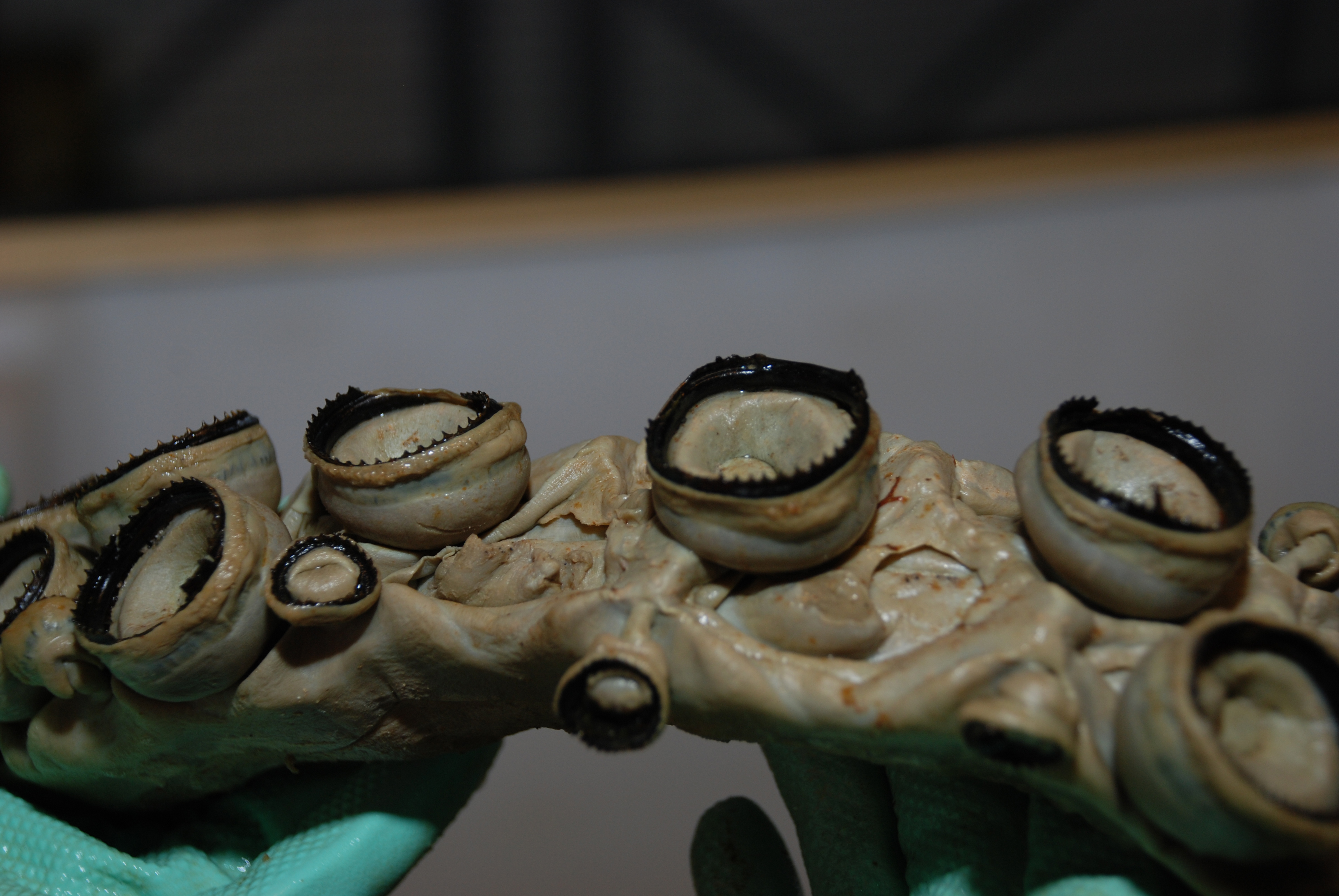 Nærbilde av sugekoppene på en av armene til den største blekkspruten. Closeup of suction cups from one of the arms of the largest giant squid in the collection. Ved bruk. vennligst kreditér: Foto: Per Gätzschmann, NTNU Vitenskapsmuseet If used, please credit: Photo: Per Gätzschmann, NTNU Museum of Natural history and Archaology